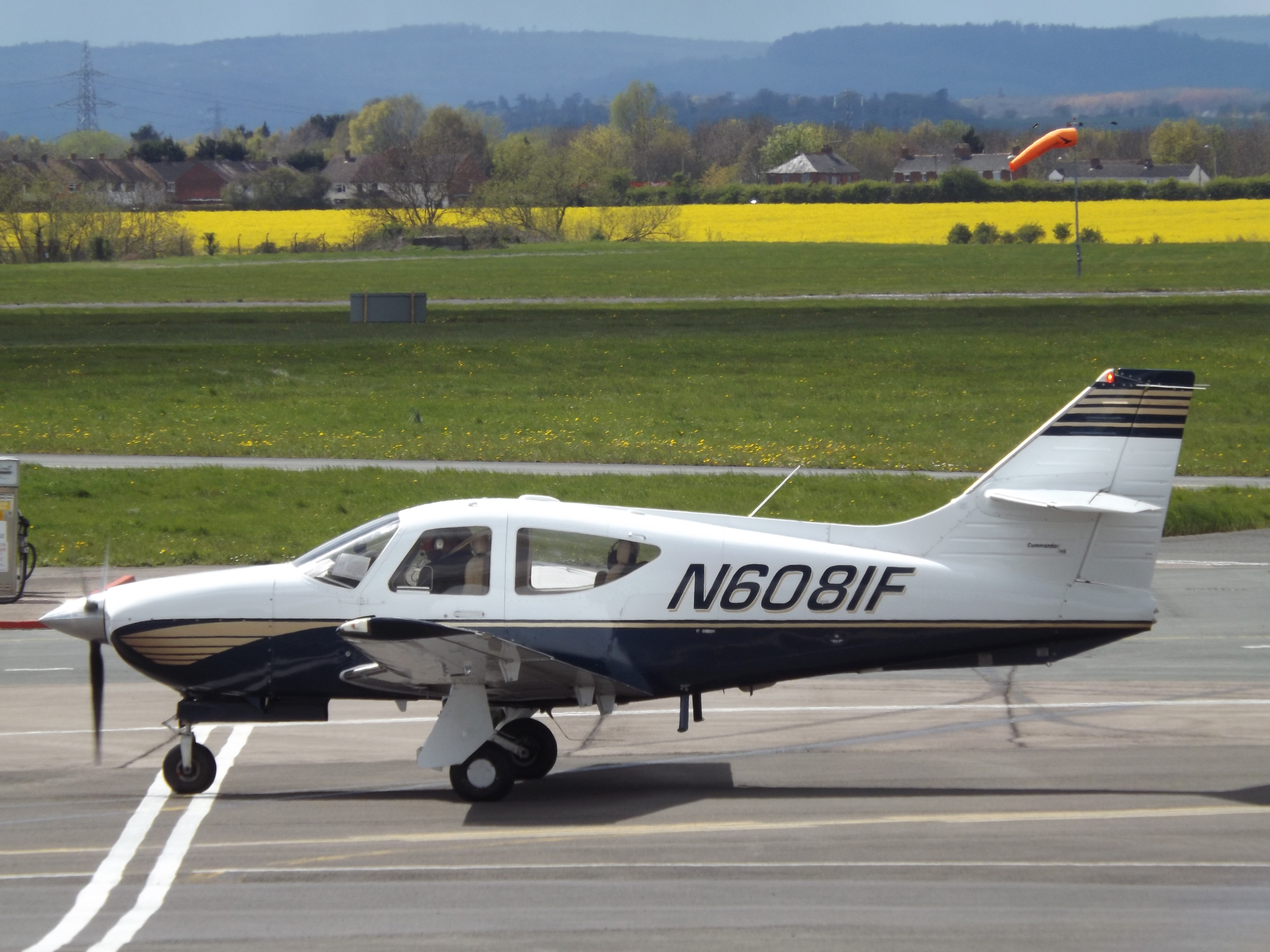 At Gloucestershire Airport.